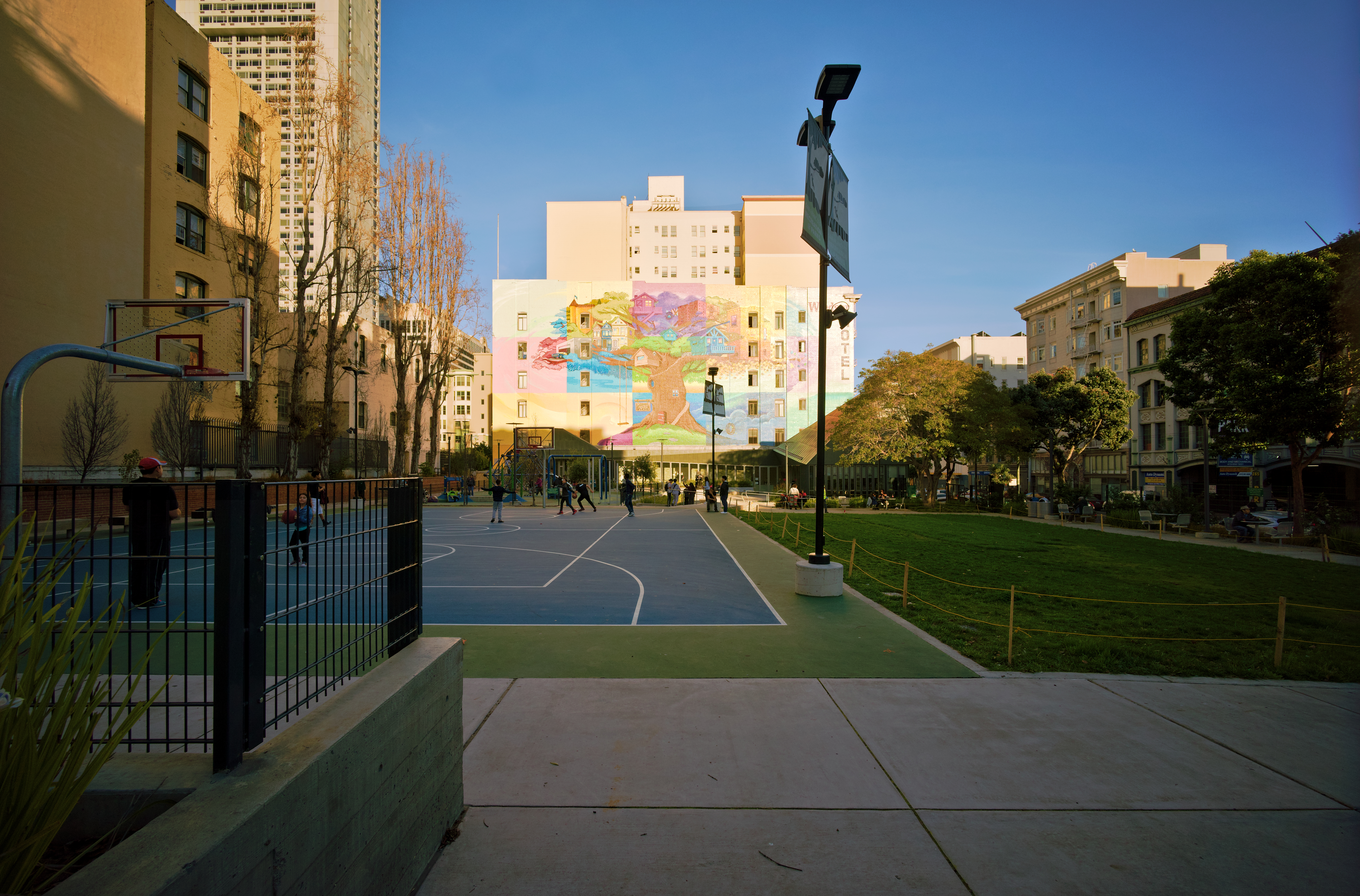 The Father Alfred E. Boeddeker Park in San Francisco features a mural and a basketball court.